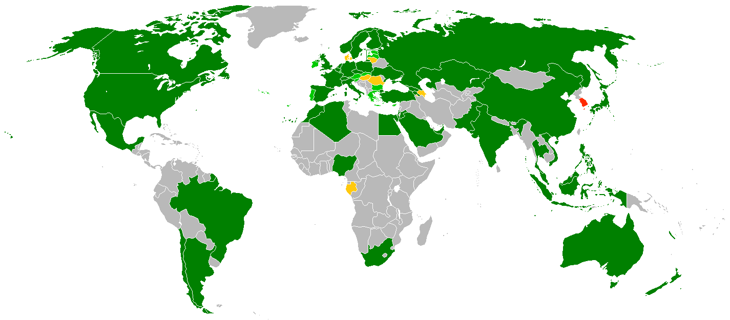 Participant nations of Nuclear Security Summit held in Seoul, South Korea, March 26-27, 2012. Host nation (South Korea) Participating nations First-time participating nations (Azerbaijan, Denmark, Gabon, Hungary, Lithuania, Romania) European Union members represented by the President of the European Council and the President of the European Commission only